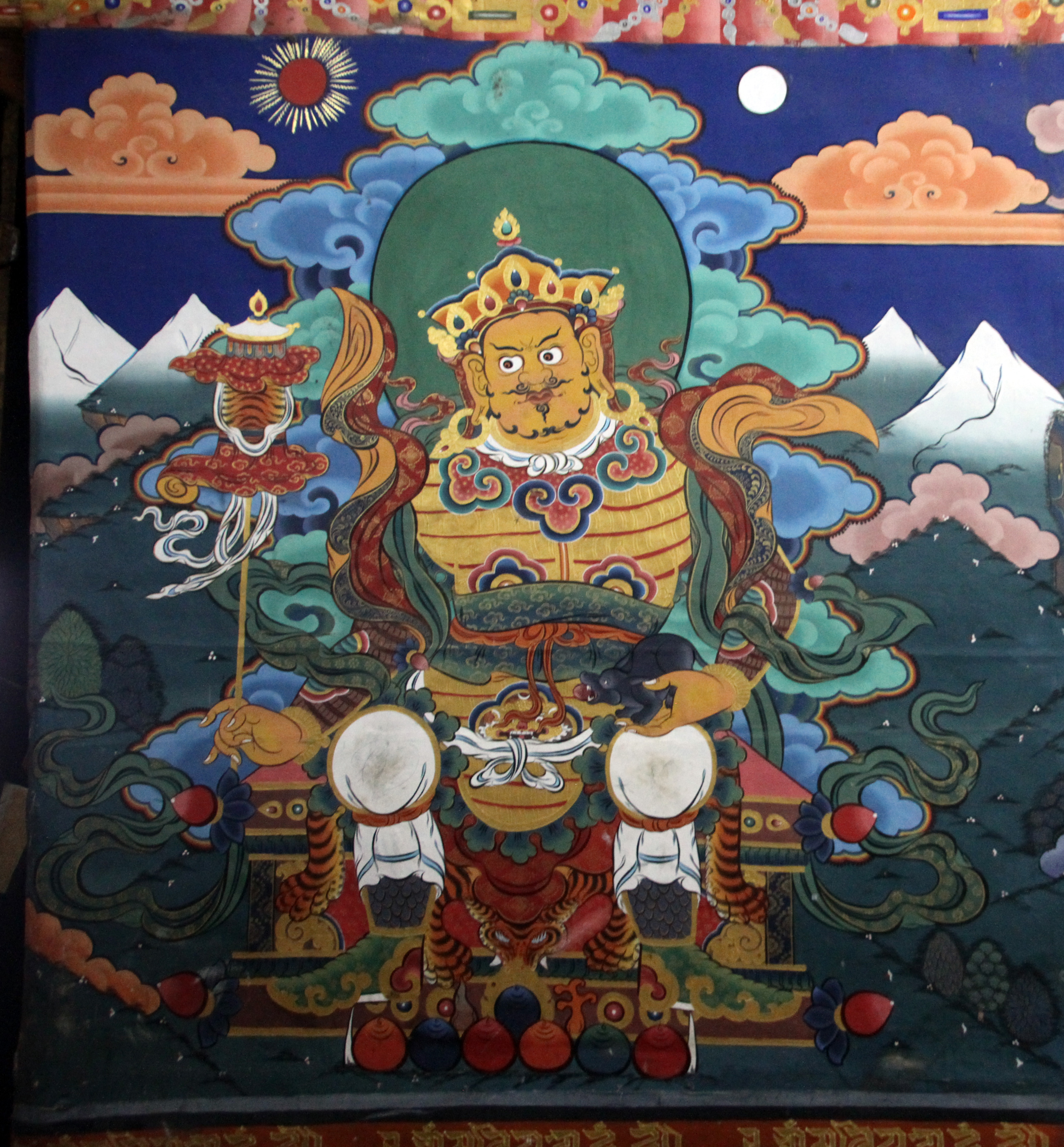 Painting in the Dzong of Paro, Bhutan.